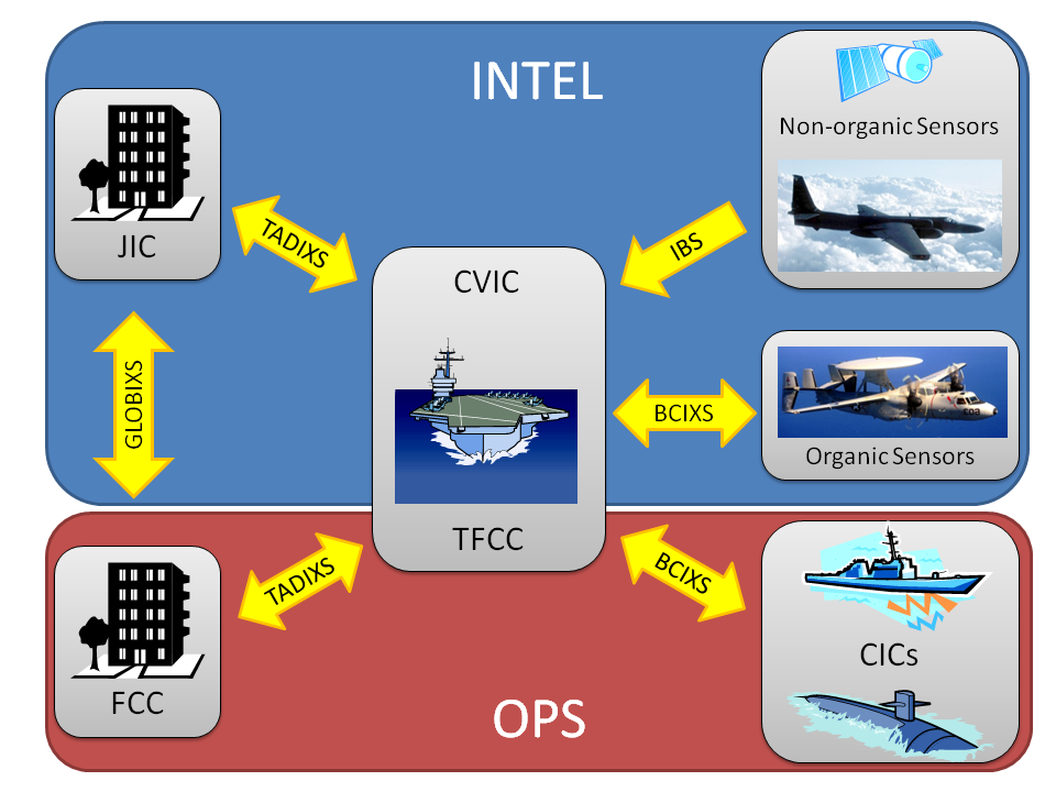 The information exchange systems structure around the CVBG.